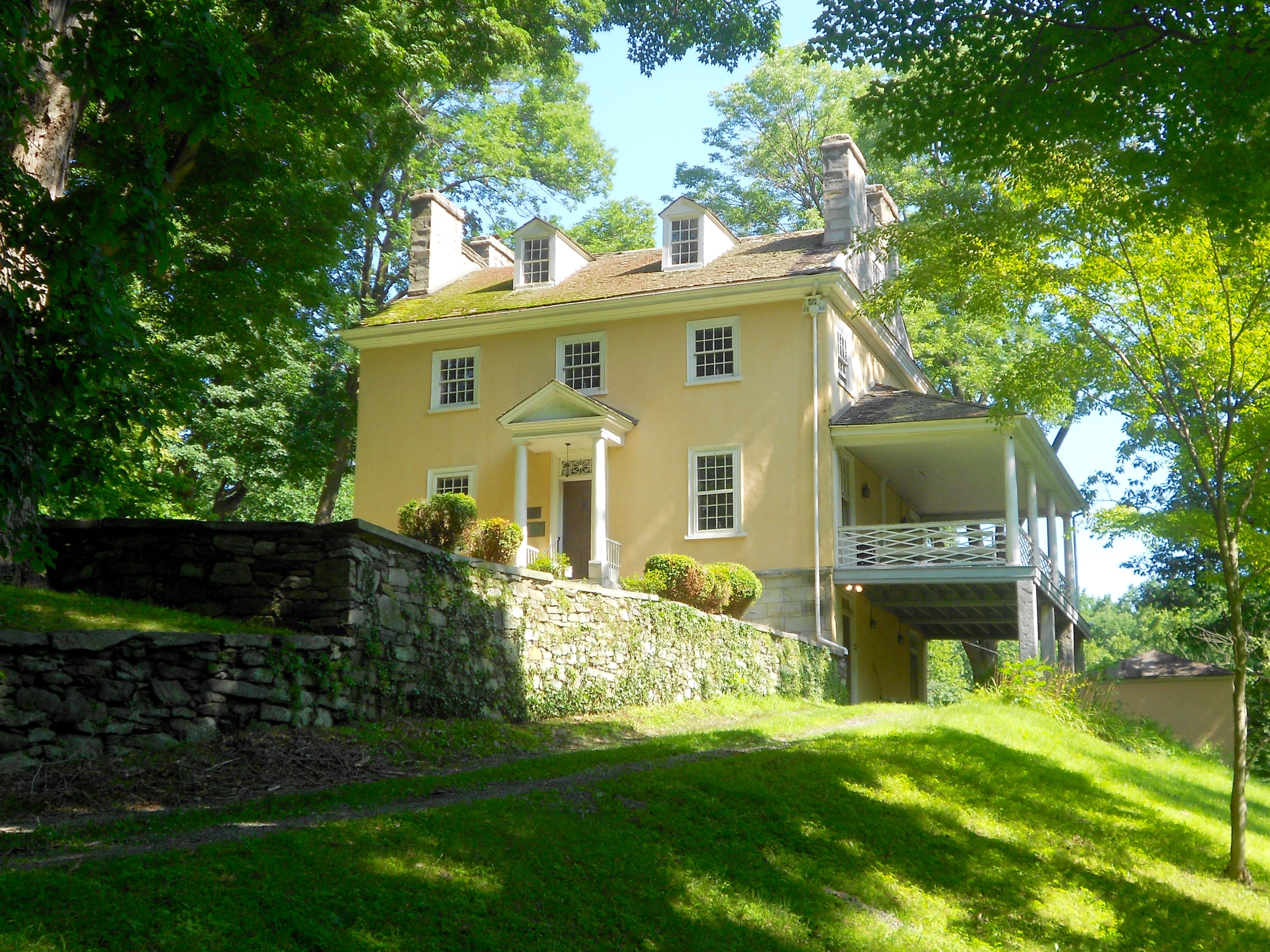 House on the Thomas Leiper Estate near Wallingford, Pennsylvania. Listed on the NRHP